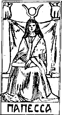 Egyptianized Tarot card, with Hathor headdress